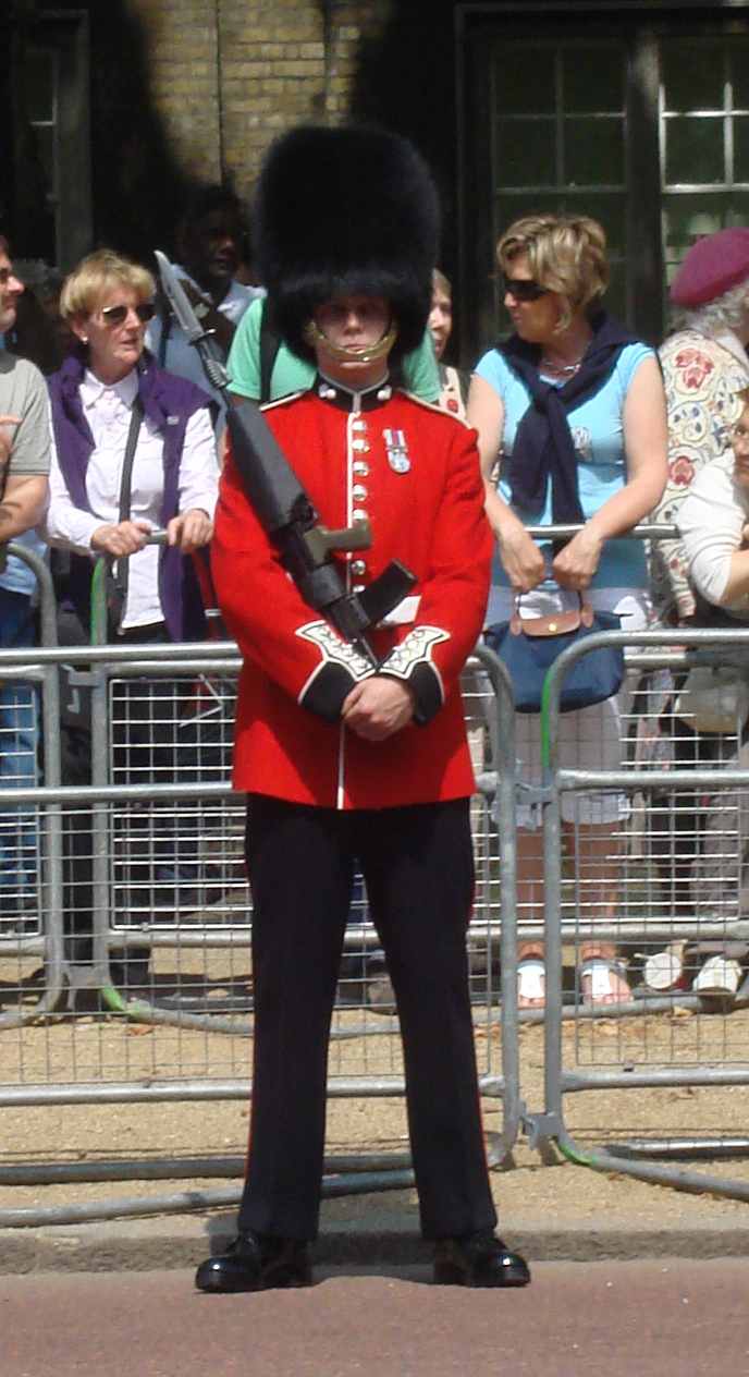 Trooping the Colour 2009